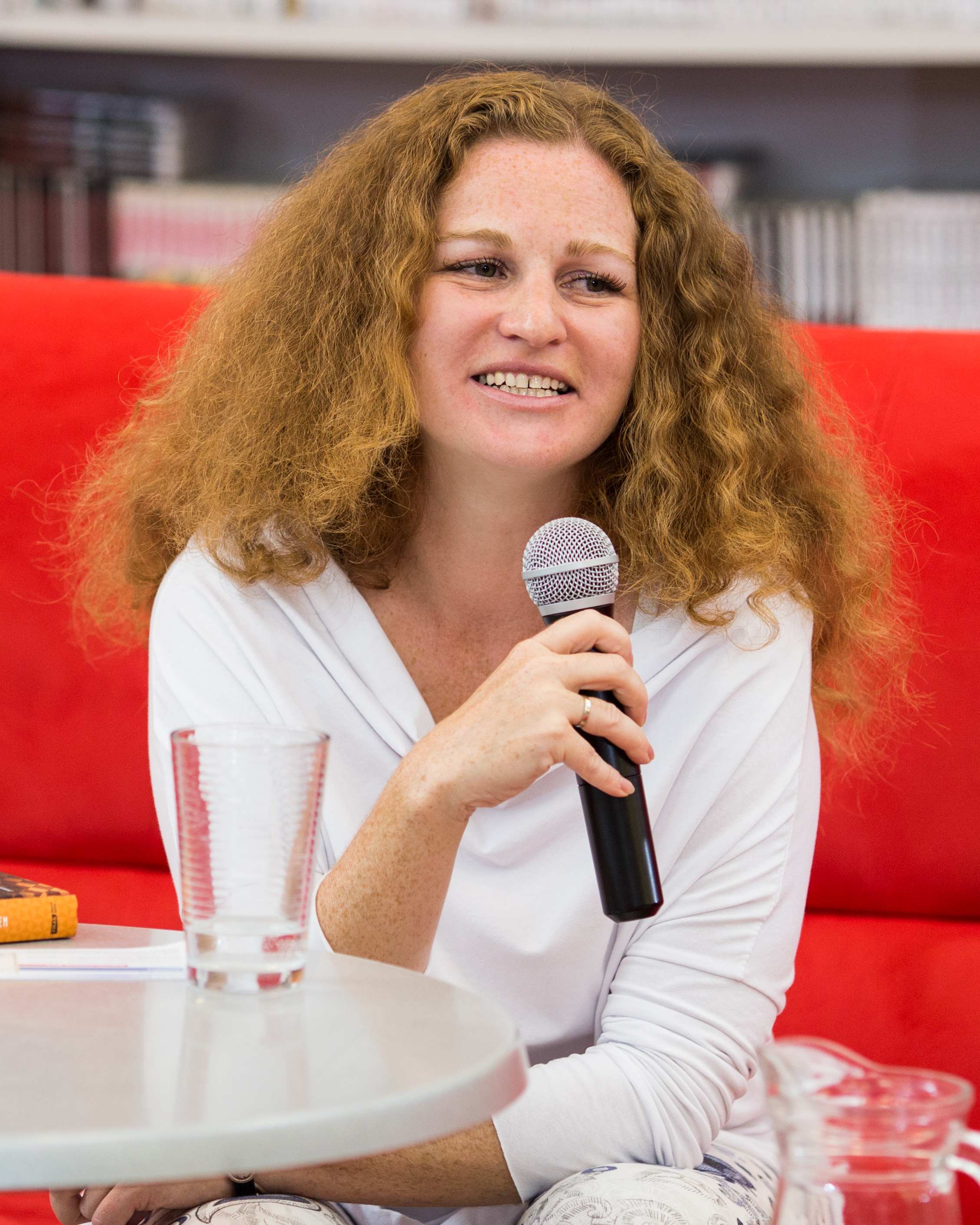 Żanna Słoniowska on Authors’ Reading Month 2016, Wrocław, Poland